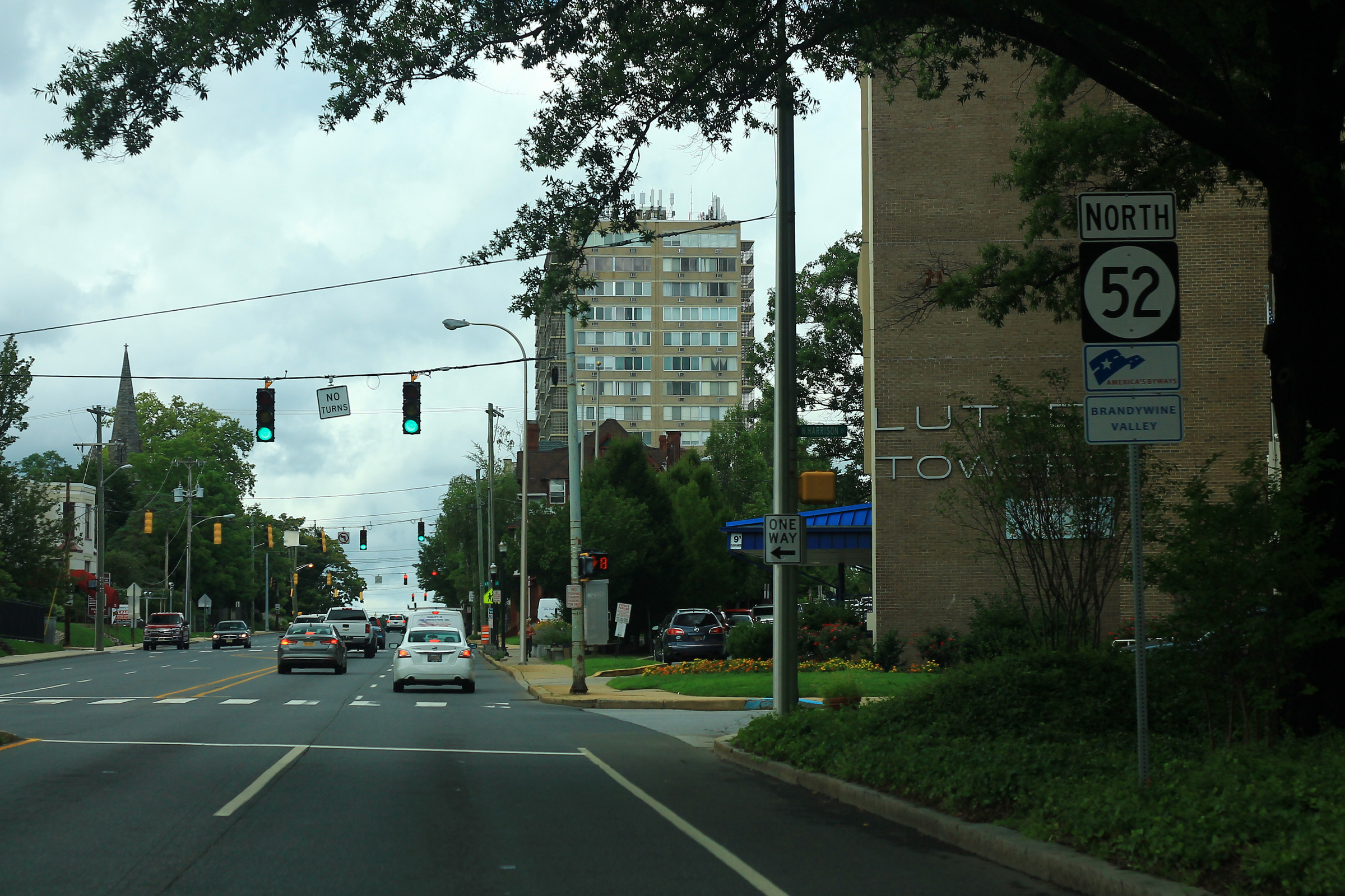 DE52 North Sign